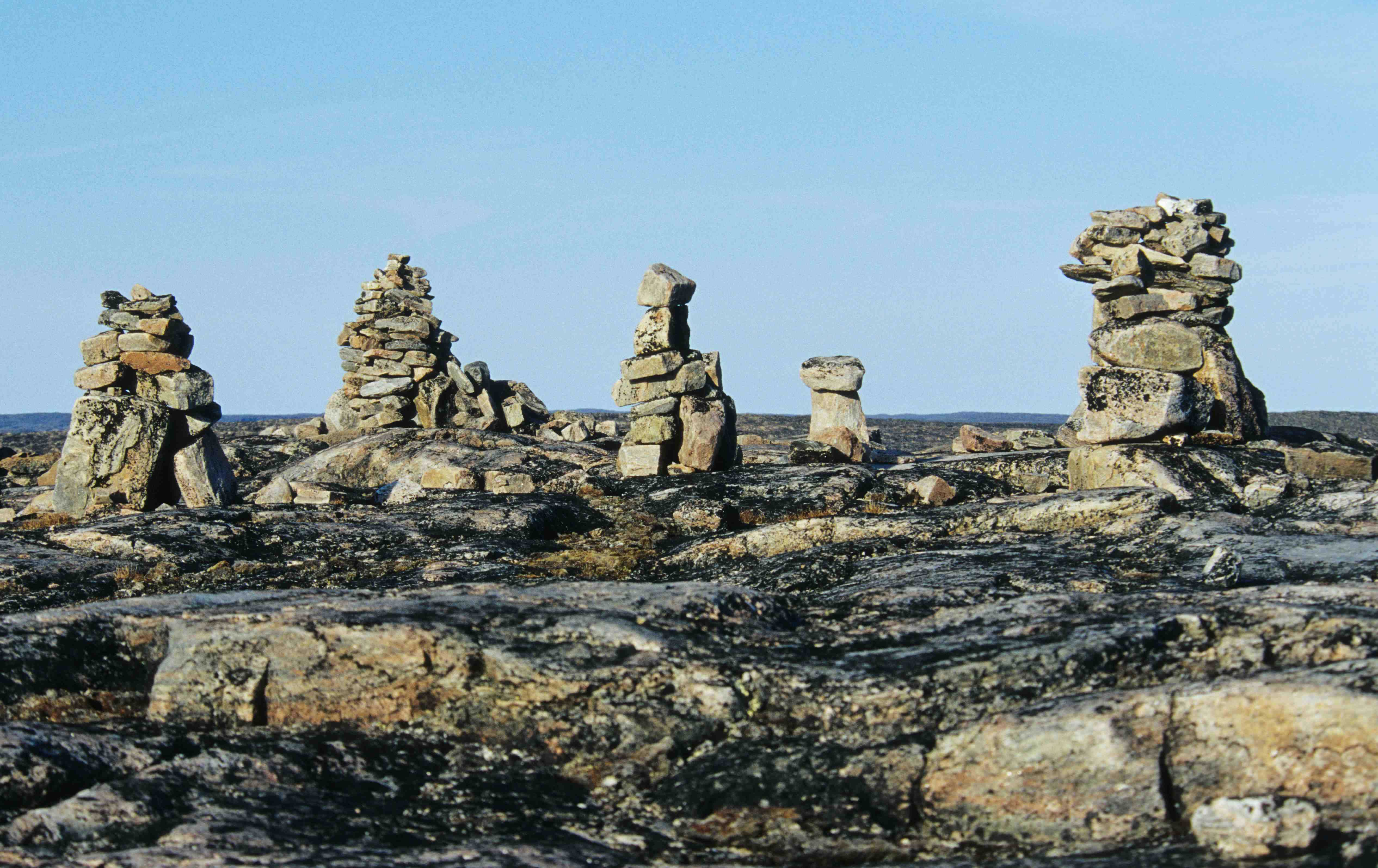 Inuksuk Point (Inuksugalait, “where there are many Inuksuit“), Foxe Peninsula (Baffin Island), Nunavut, Canada